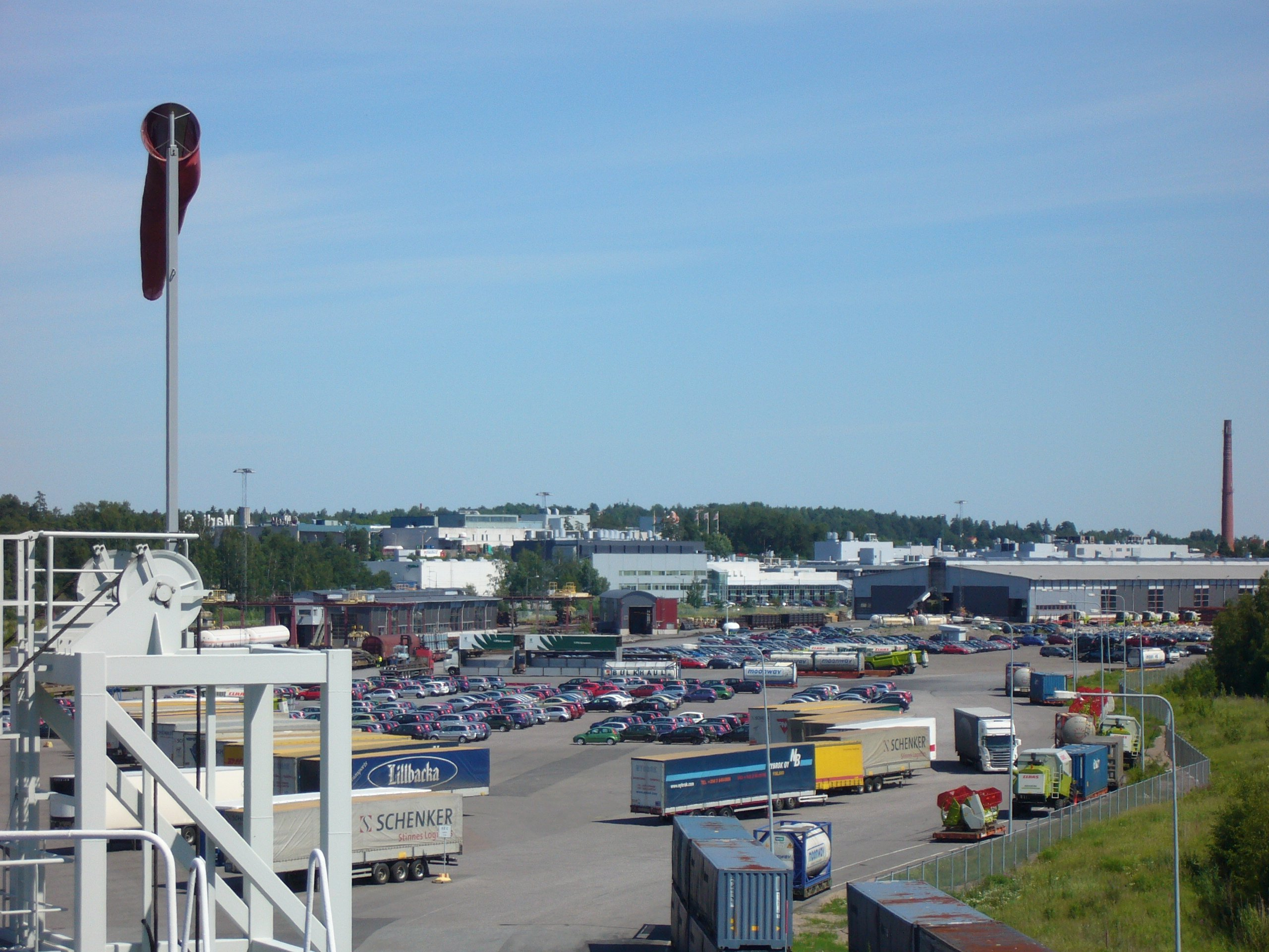 Port of Turku (Pansio), Finland.